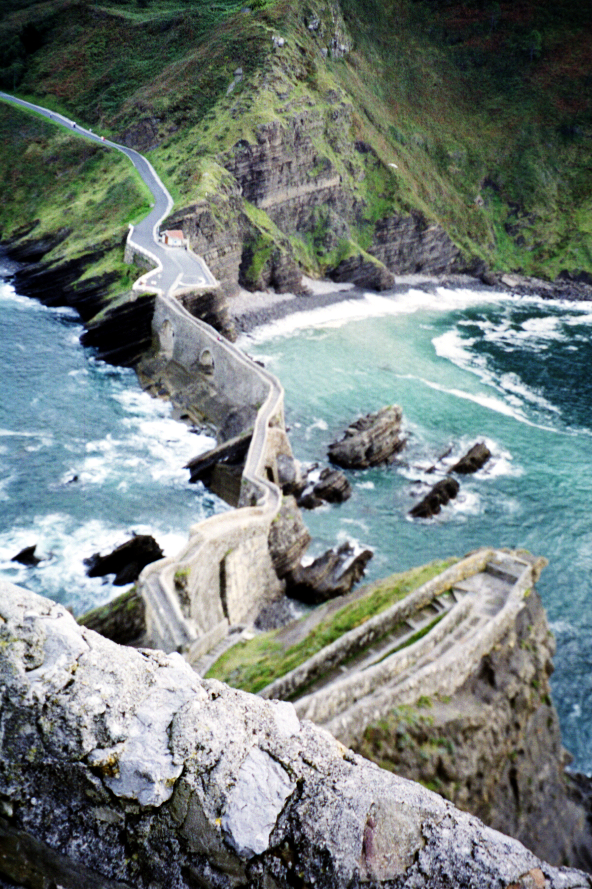 Causeway to Saint John's hermit in Gaztelugatxe, Biscay, SpainCauseway to the Ermita de San Juan, Biskaia, Spain